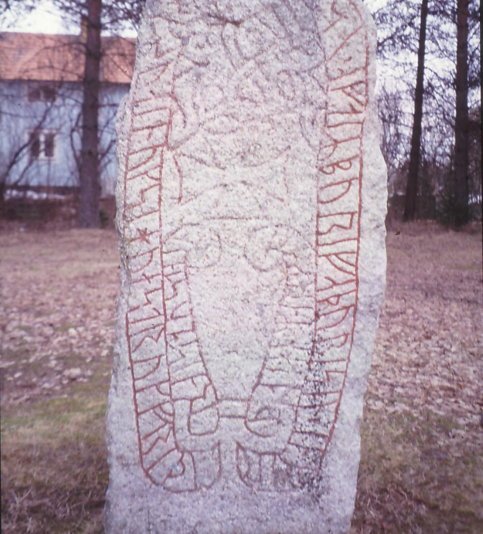 The rune stone Burestenen in the Kvissle-Nolby-Prästbolet area. Photographed using a Konica Pop.